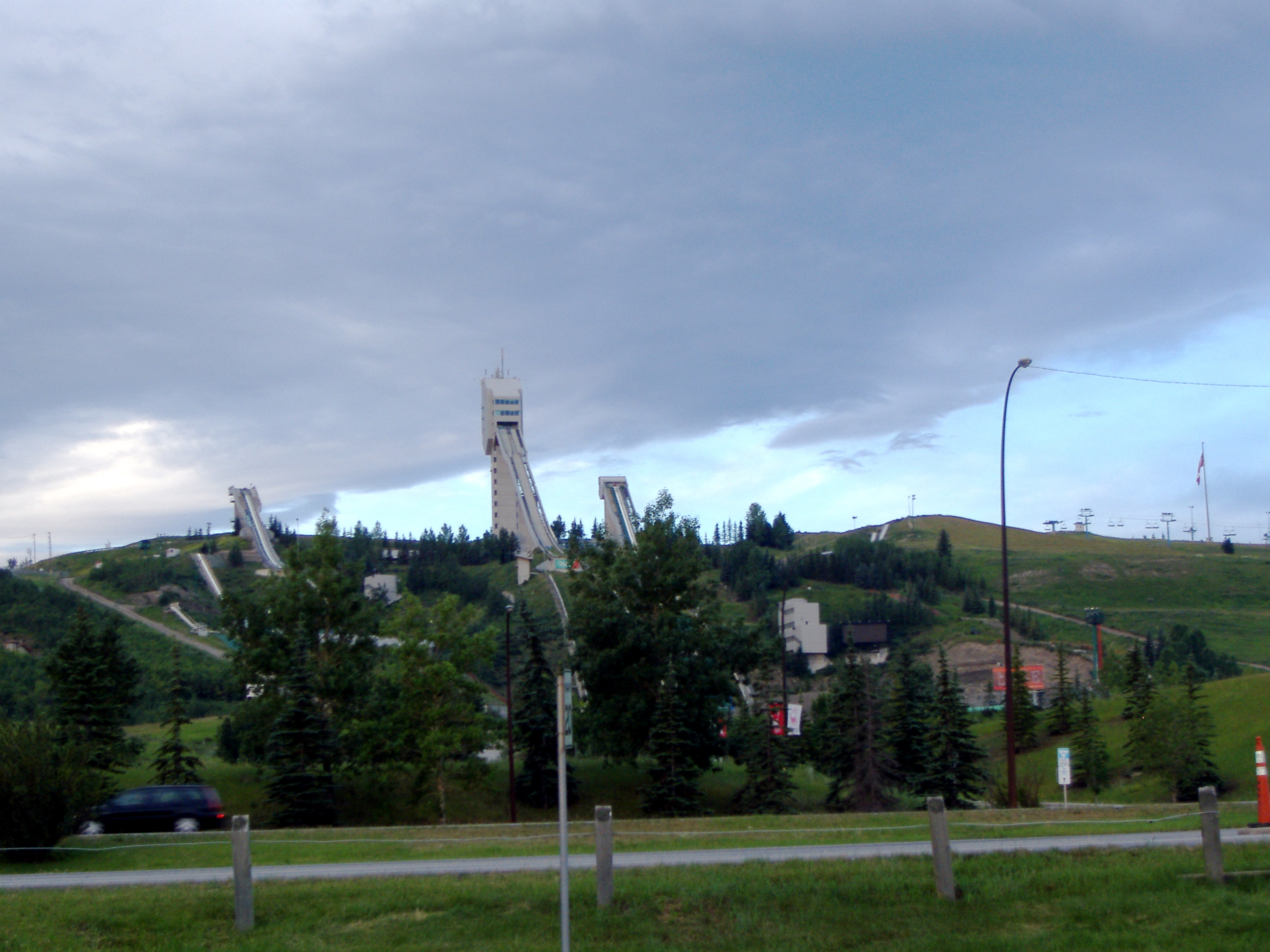 Canada Olympic Park taken in mid-July of 2006. This is from the north side of the TransCanada HWY.